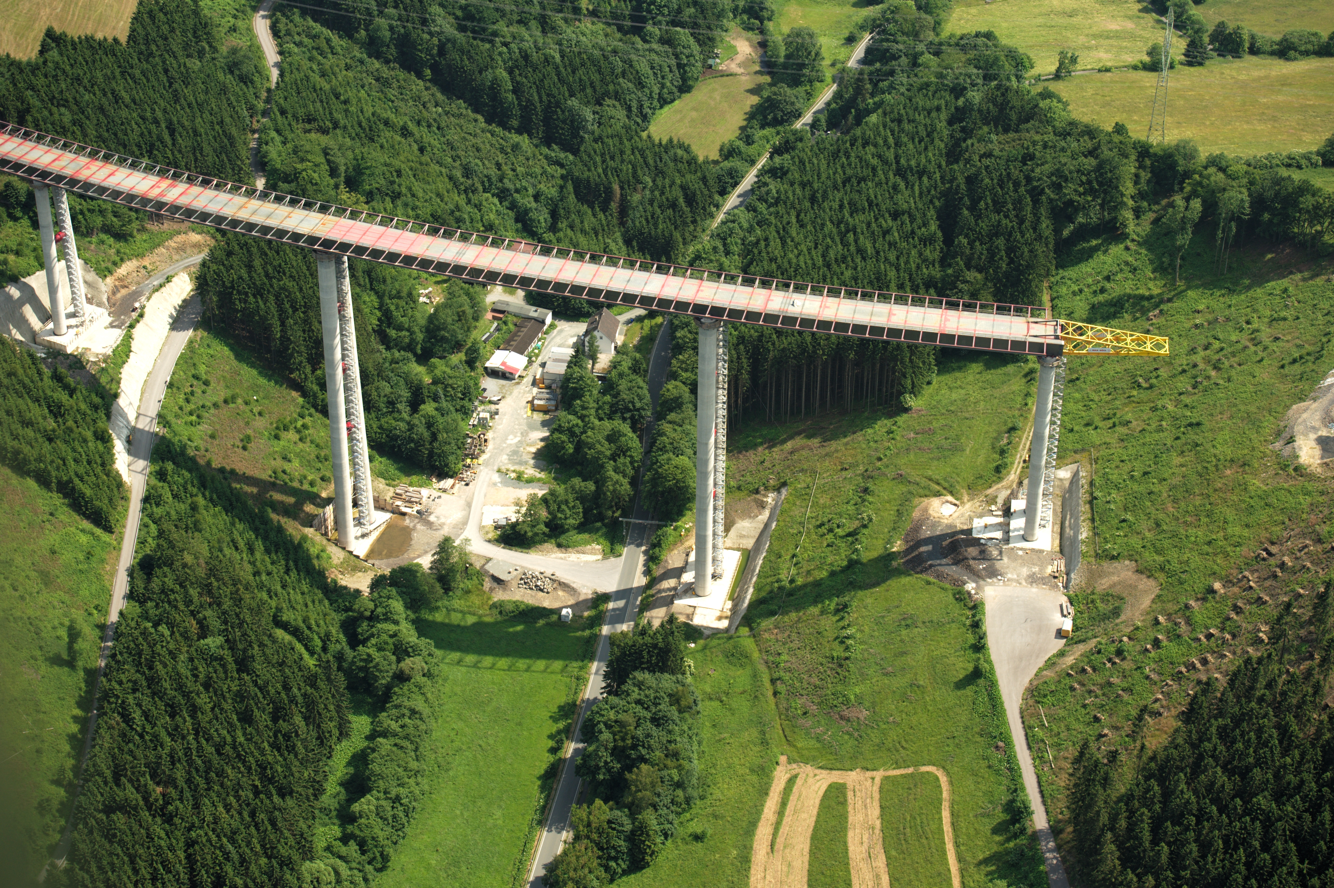 Fotoflug Sauerland-Ost – Talbrücke Nuttlar The making of this document was supported by the Community-Budget of Wikimedia Germany.